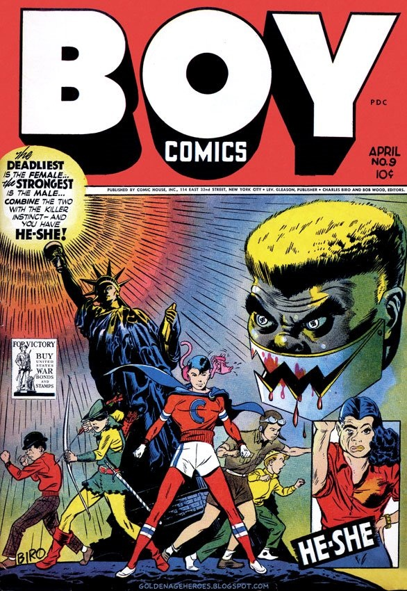 Crimebuster, Iron Jaw, and other featured characters. Art by Charles Biro.